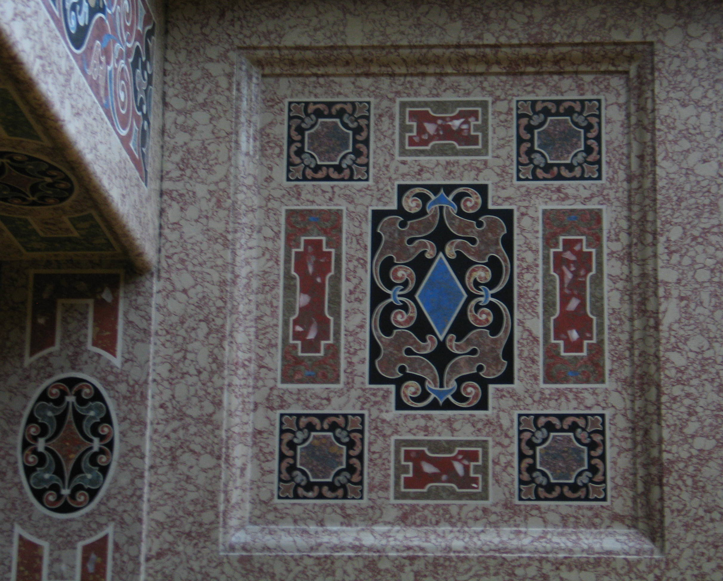 Scagliola in the chapel of the Münchner Residenz (early 17th century)